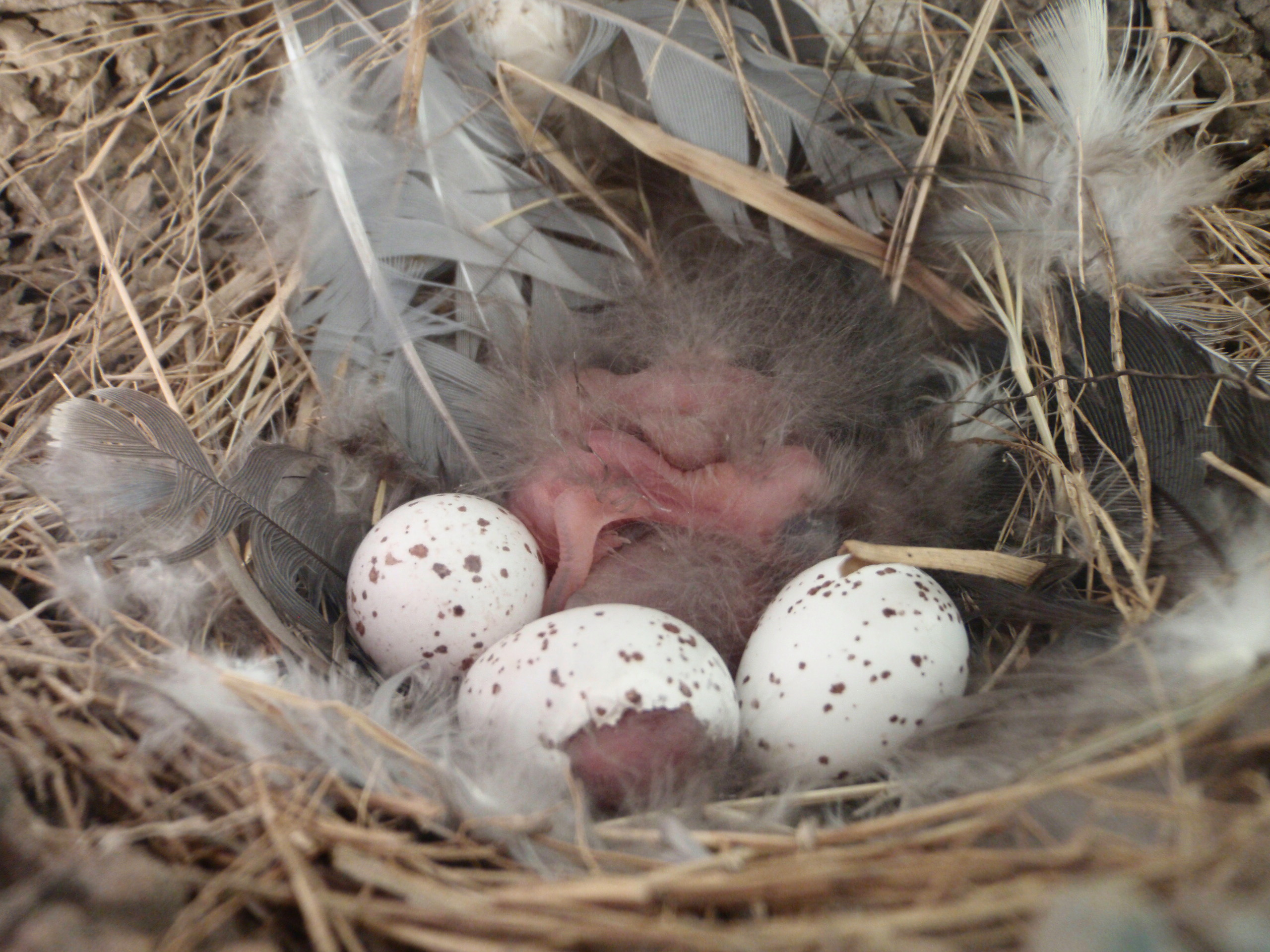 Hatching barn swallow (Hirundo rustica), 3 older siblings already hatched and 4th is on its way out